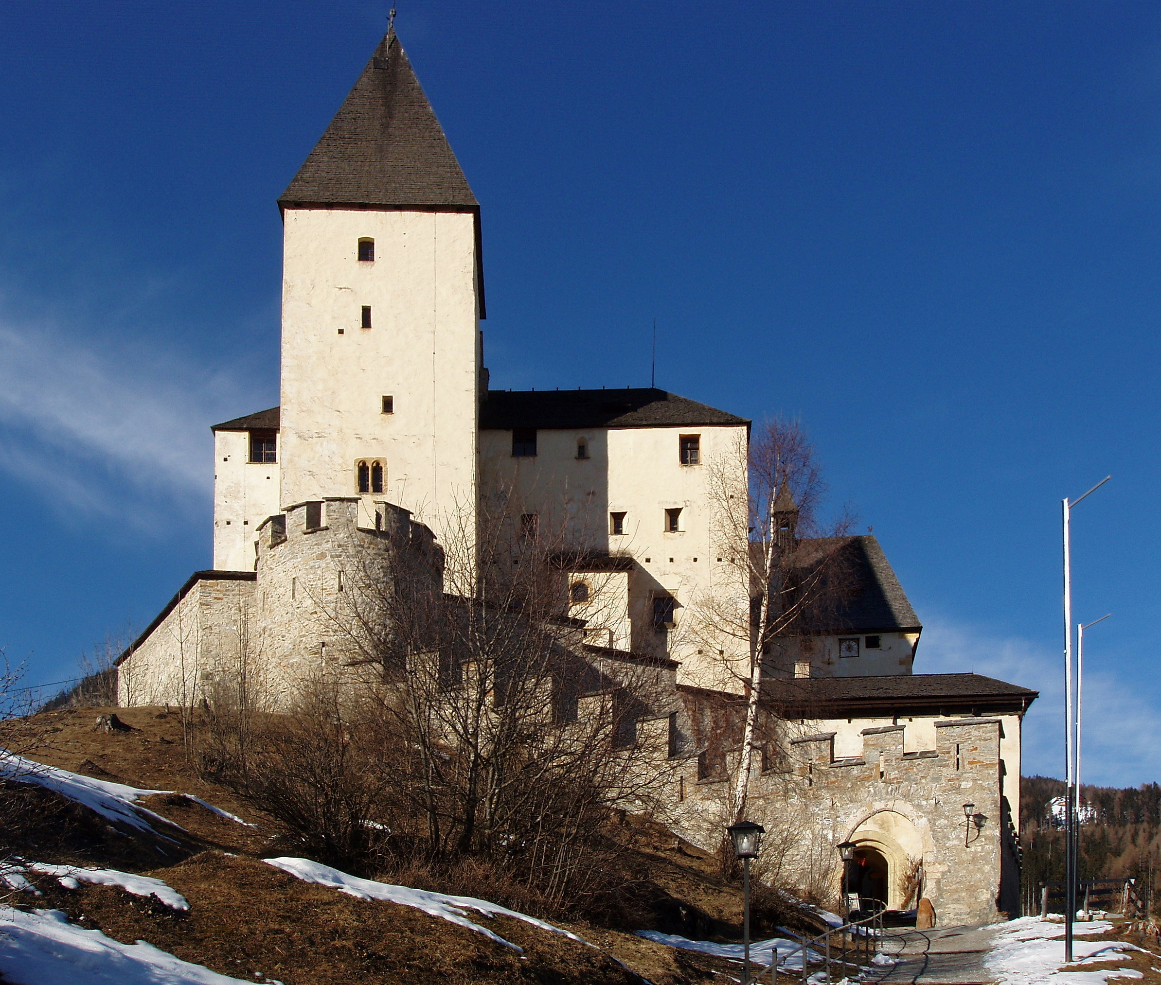 Mauterndorf castle (state of Salzburg, Austria)